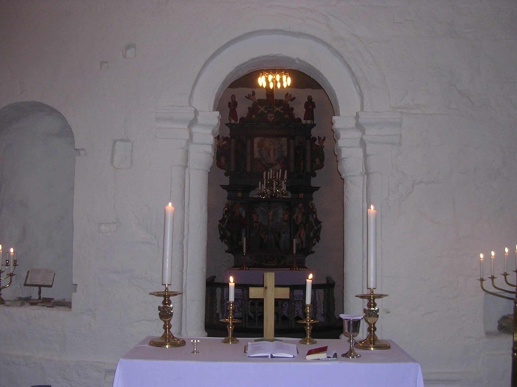 Interior from Alstahaug church, looking into the oldest part